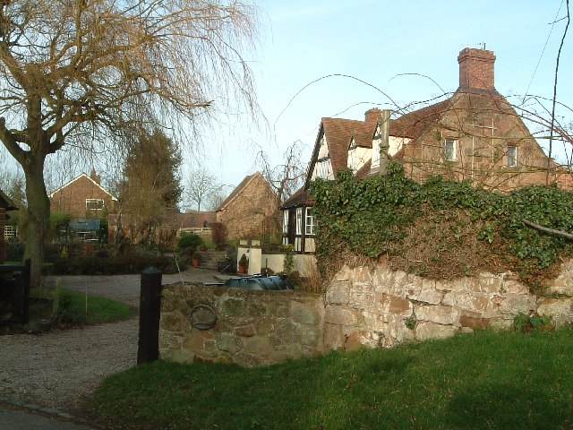 Botts Green : Houses & Cottages. Botts Green is a small hamlet near The Whitacres in N. Warwickshire.